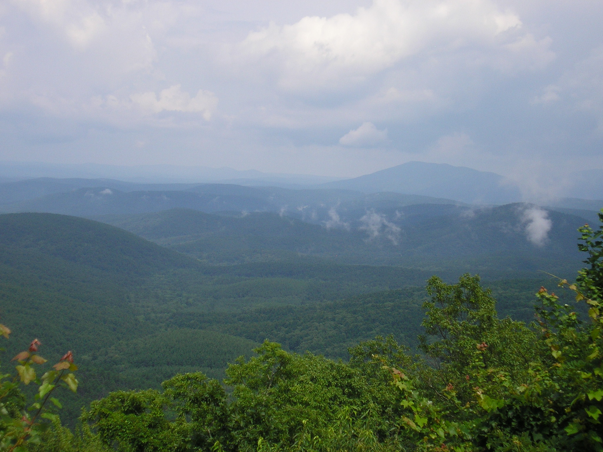 View from a scenic vista along the Talimena Scenic Drive in Oklahoma.